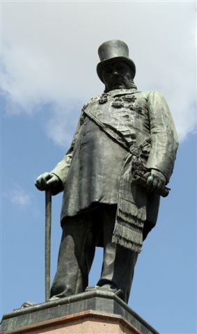 This media shows a South African Protected Site with SAHRA file reference [1].